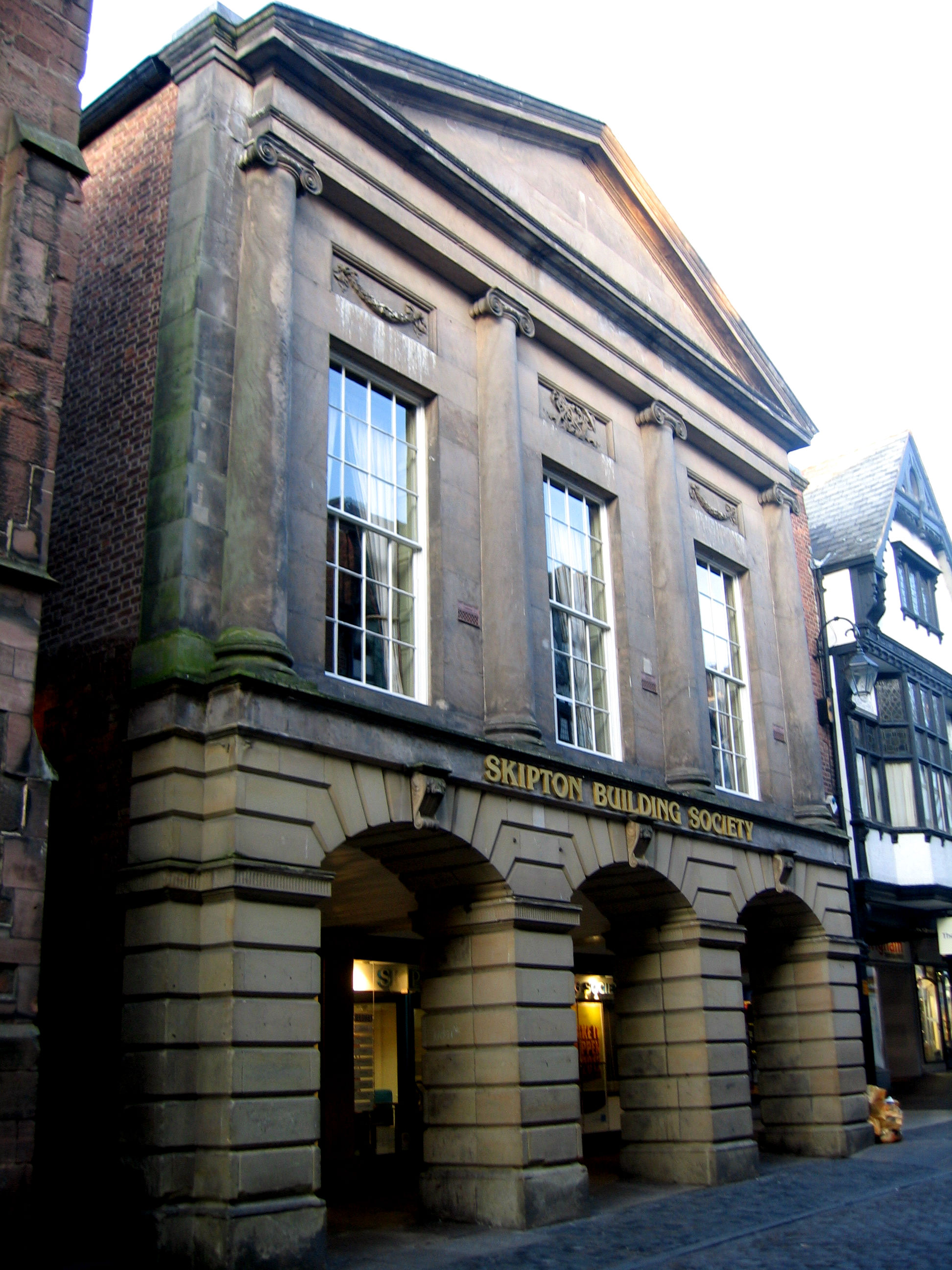 Photograph of Chester City Club, Northgate Street